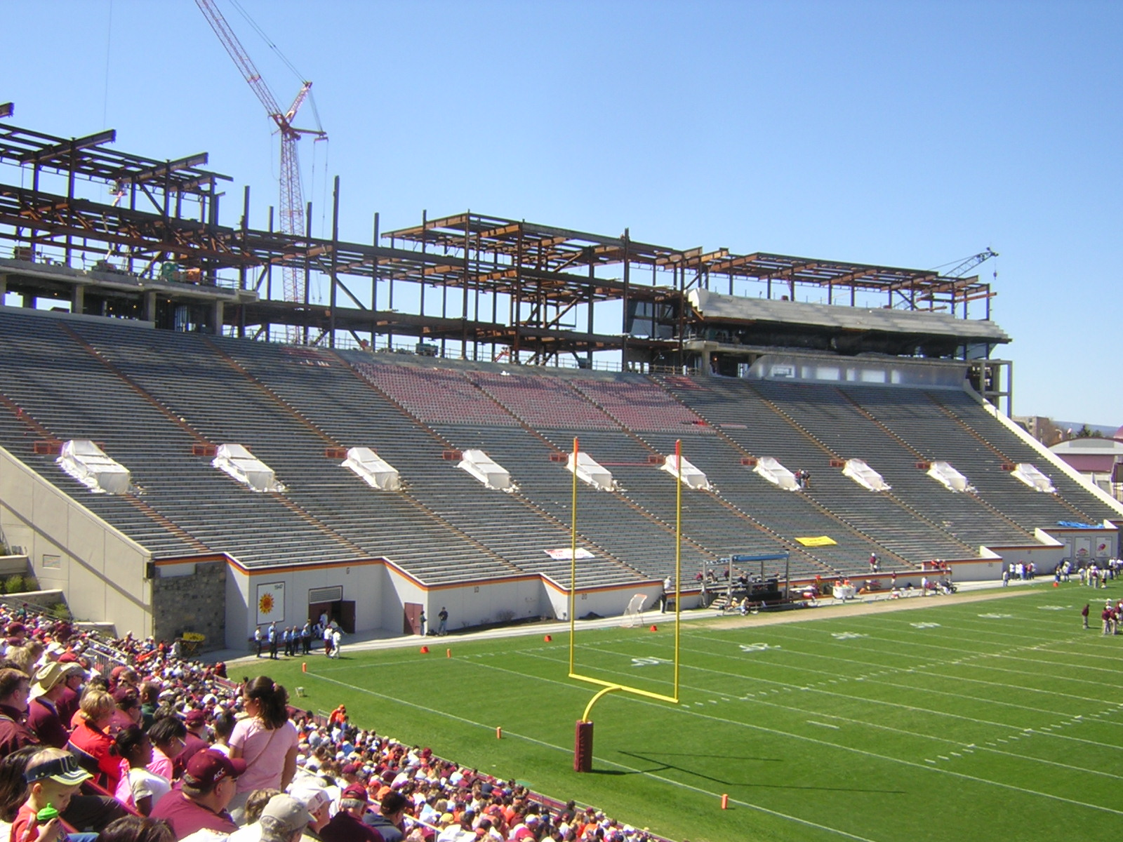 Virginia Tech's Lane Stadium being expanded during the 2005 Spring game. This round of expansion involved the creation of a new press box and new luxury seating.